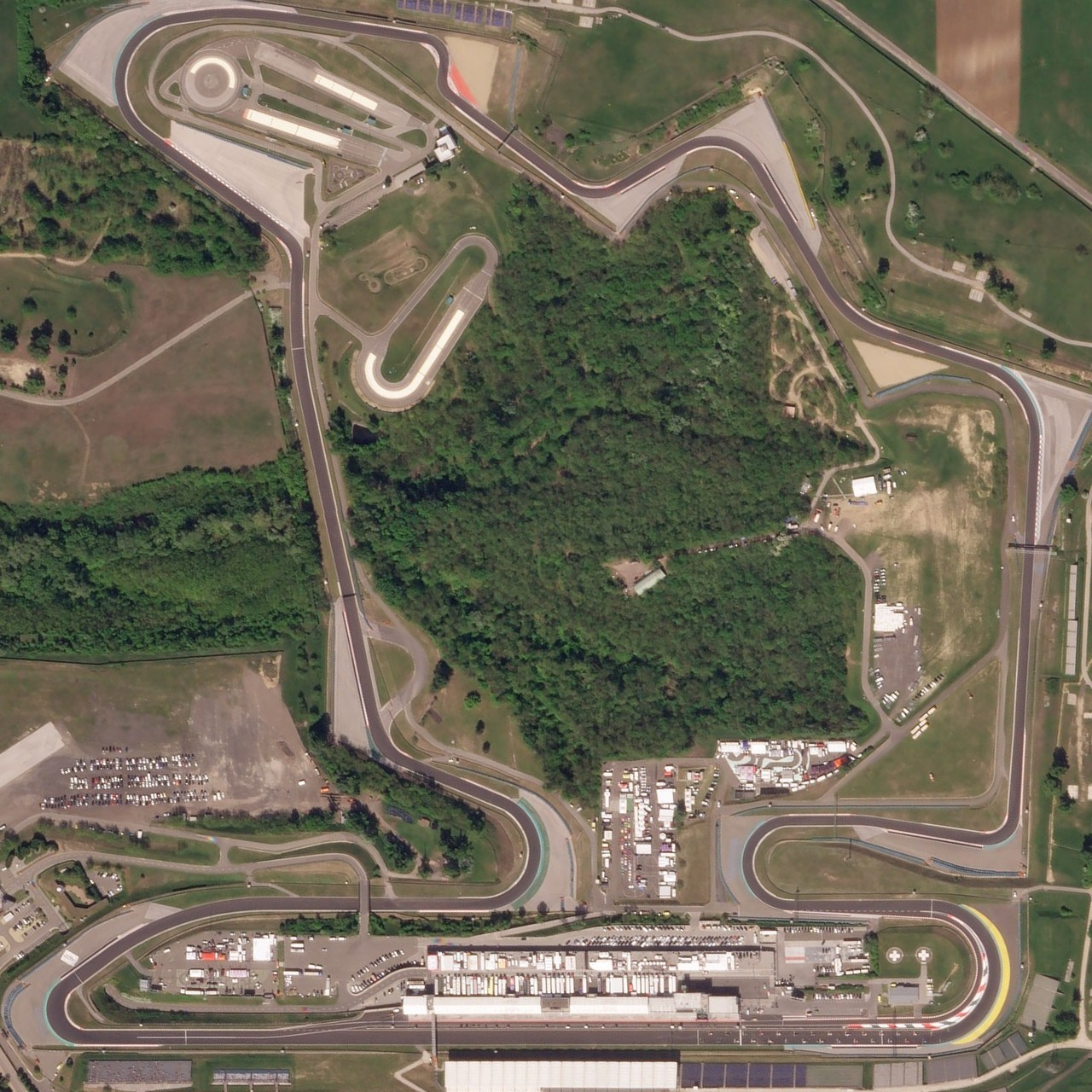 The Hungaroring, a motorsport race track in Mogyoród, Hungary where the Formula One Hungarian Grand Prix is held. Image taken on April 28, 2018, by a Planet Labs SkySat satellite.